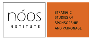 Logo of Instituto Noos